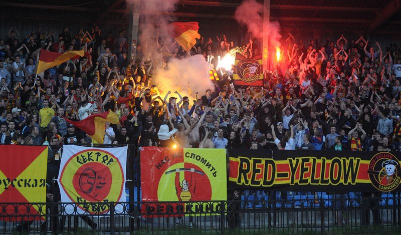 Фанаты тульского Арсенала